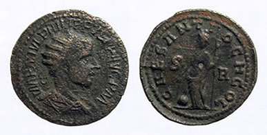 AntiochPisidia AE28 Providentia - Philip II as Augustus, AE28 of Antioch, Pisidia. IMP M IVL PHILIPPVS P F AVG P M, radiate, draped & cuirassed bust right / CAES ANTIOCH COL Providentia standing with baton & scepter, globe at feet, S R at sides.